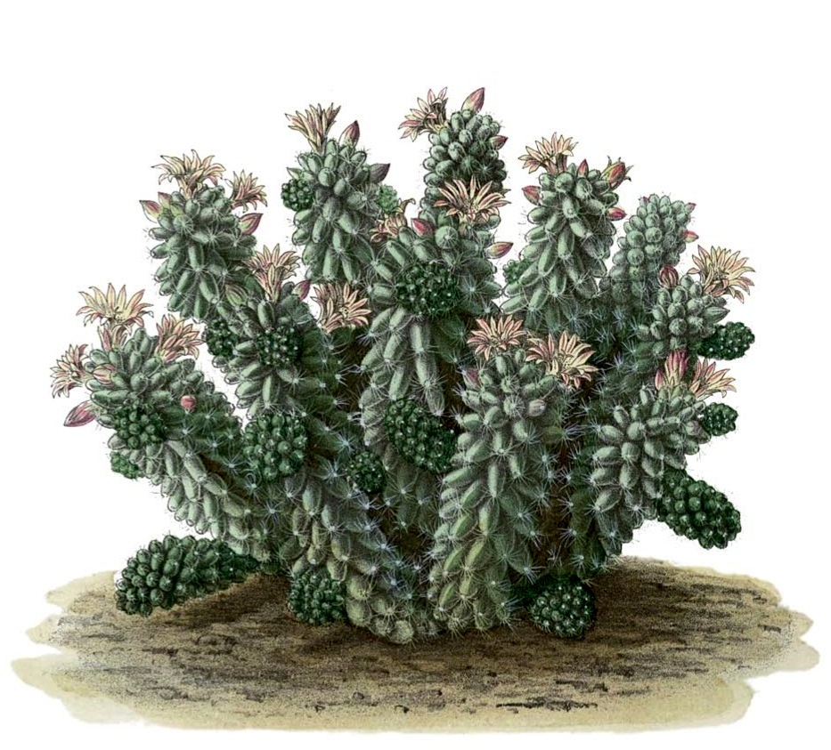 Mammillaria vetula